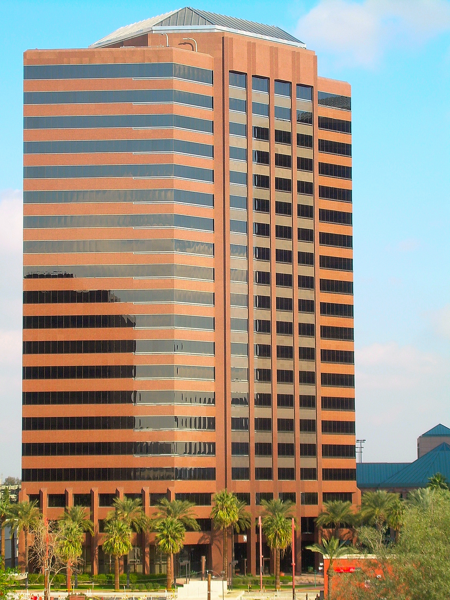 Phoenix Plaza II, JCordova, self